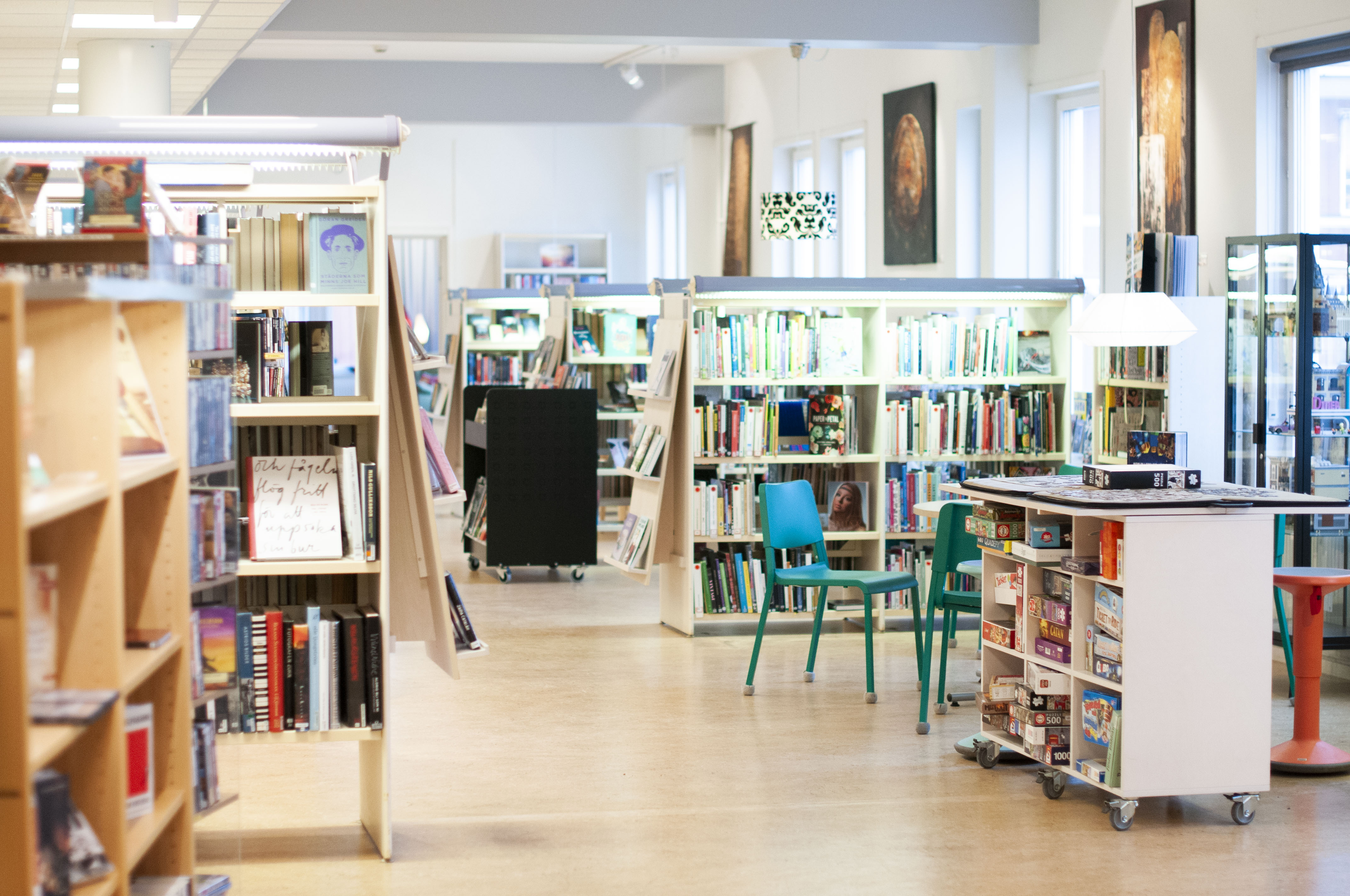 Interior of the city library in Säter, Dalarna, Sweden. Bookcases and green chairs.